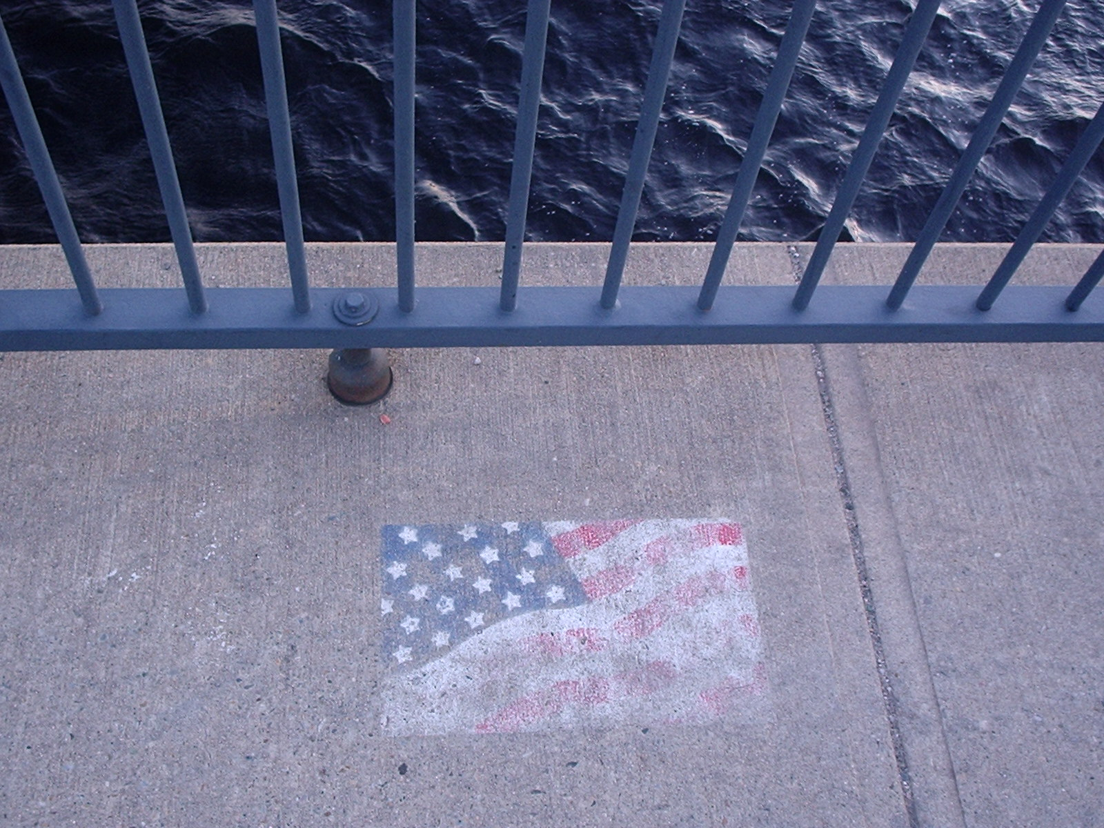 The Harvard Bridge is littered with both serious and comical statements of art.